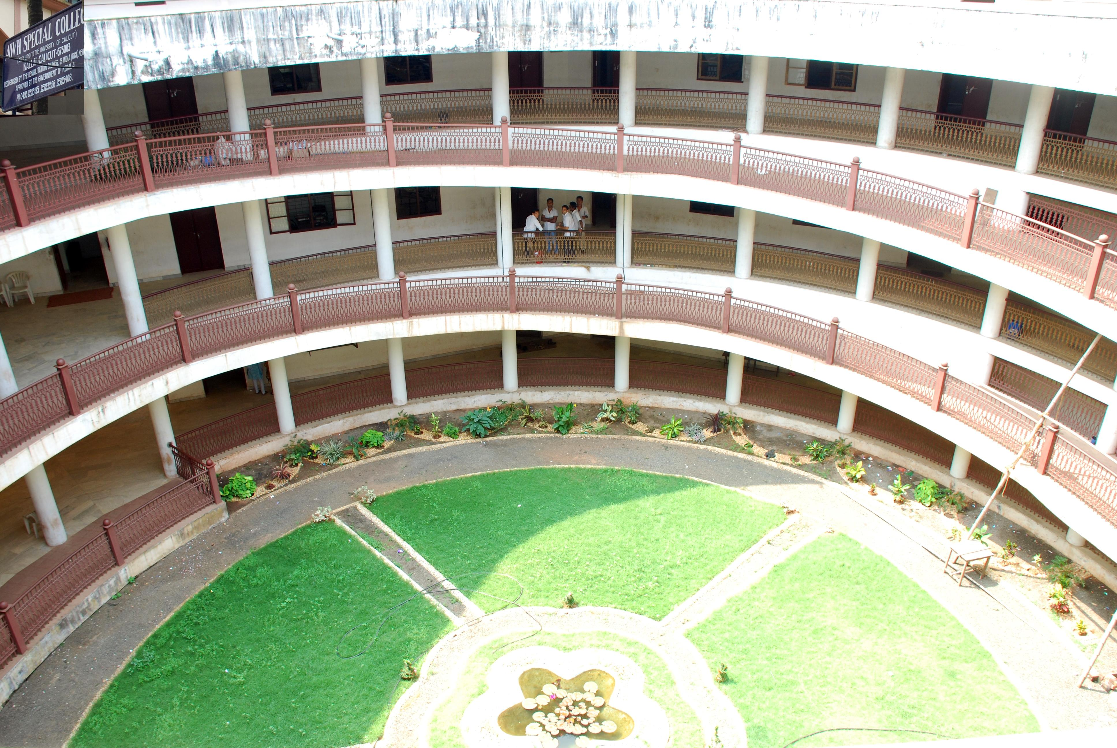 AWH Special College is a prestigious institution of higher learning founded by the Association for Welfare of the Handicapped (AWH) in the year 1996. We are proud to declare that this college plays a significant role in the higher education of northern Kerala State and is the pioneer institution in the educational field of physiotherapy, genetics, audiology and speech language pathology. Genetics is a new emerging field of science with tremendous potential in the field of management of genetic diseases, syndromes, deformities, and health in general. Therefore it opens a wide horizon of research scope. B. Sc genetics is offered only in AWH in the state. The College offers under-graduate and post-graduate programmes in physiotherapy and audiology and speech language pathology. We have other undergraduate B.Sc Programmes in computer science, electronics, and geology. We also provide PG programme in social work. All our courses are sanctioned by the Government of Kerala and are duly affiliated to the University of Calicut. We have recognition from Rehabilitation Council of India (RCI) for the relevant programs. The Association for Welfare of the Handicapped (AWH) is a major charitable voluntary organization working in the Indian state of Kerala. The service of the Association is in the field of human resource development in the area of disability welfare.